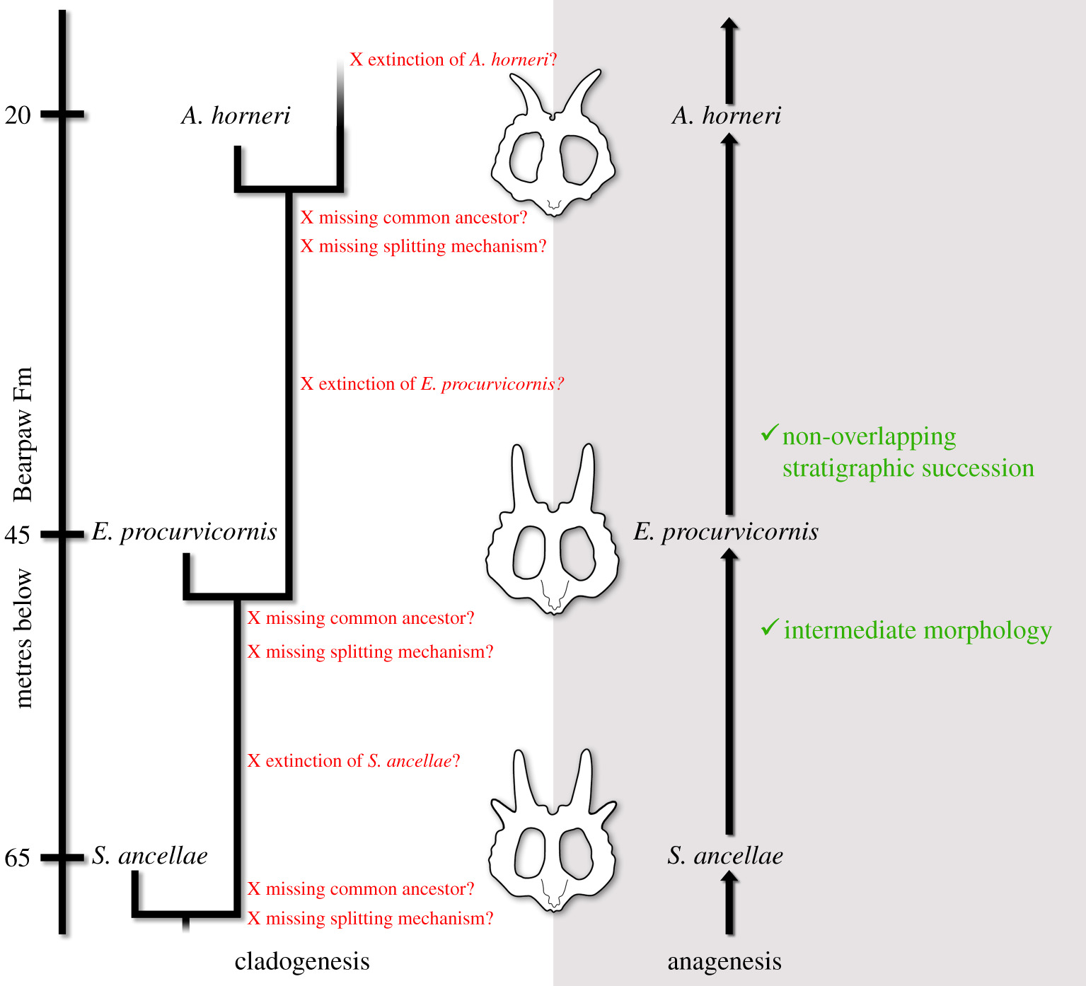 Comparison of the two major evolutionary mode hypotheses for the Two Medicine Formation centrosaurines and the associated lines of evidence supporting or absent. Parietal line drawings modified from Evans & Ryan ([22] fig. 15), Public Library of Science (PLoS), used under Creative Commons Attribution 4.0.